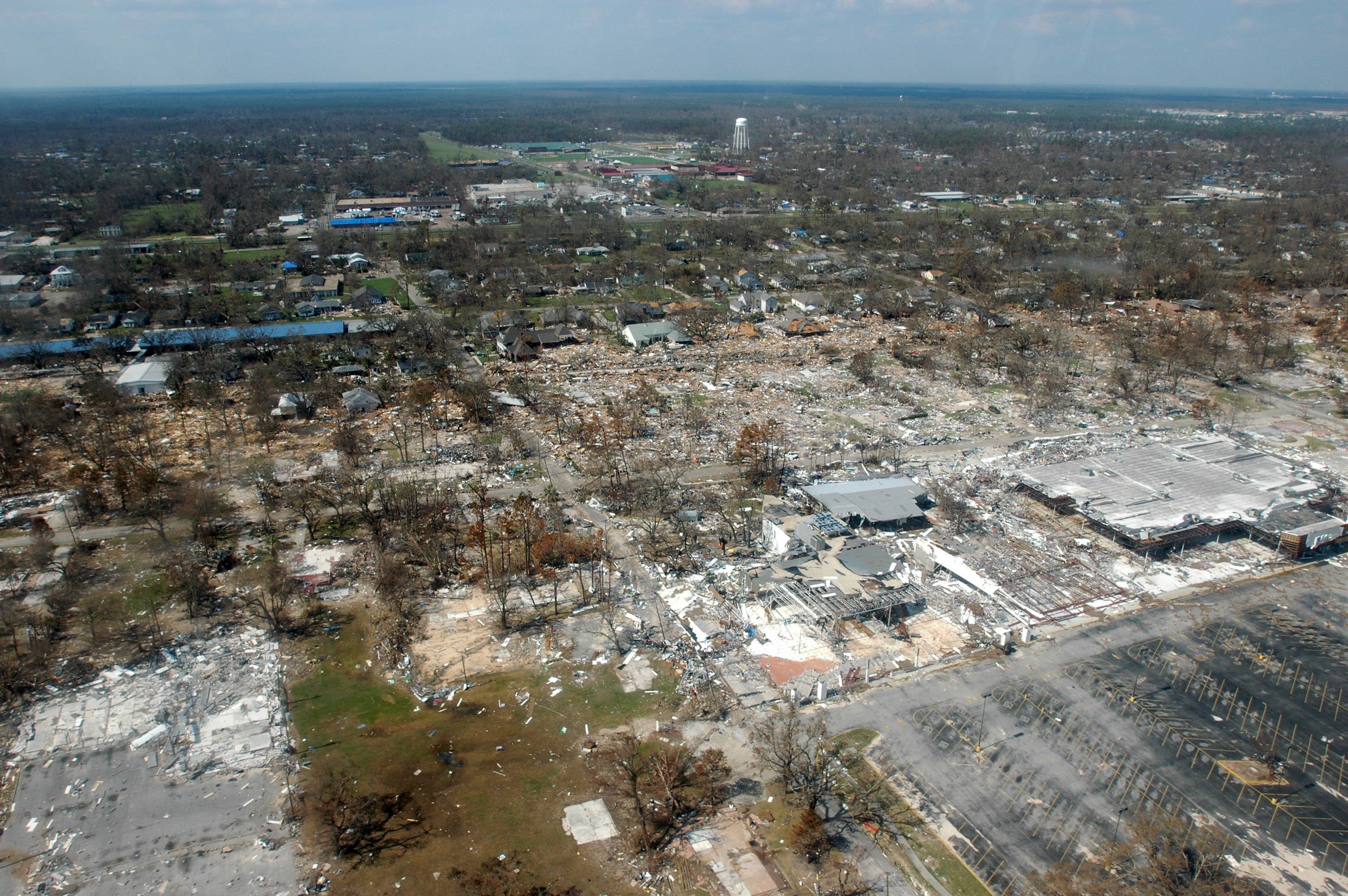 Gulfport, Miss., September 6, 2005 -- Destroyed houses in Gulfport, Miss. Hurricane Katrina caused extensive damage all along the Mississippi gulf coast. New Orleans is being evacuated as a result of flooding from hurricane Katrina and is still 60% under water. FEMA/Mark Wolfe.